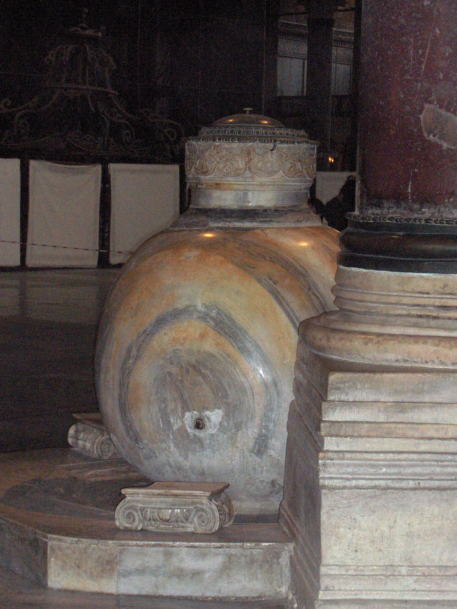 Hagia Sophia ; inside view : Hellenistic marbleware urn; Istanbul, Turkey